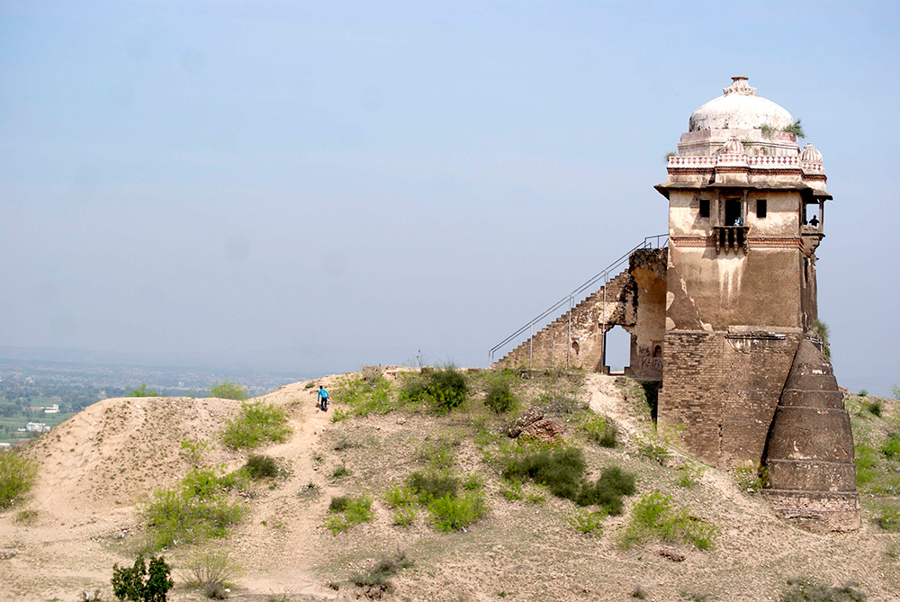 Haveli Man Sing, Rohtas Fort, Jhelum